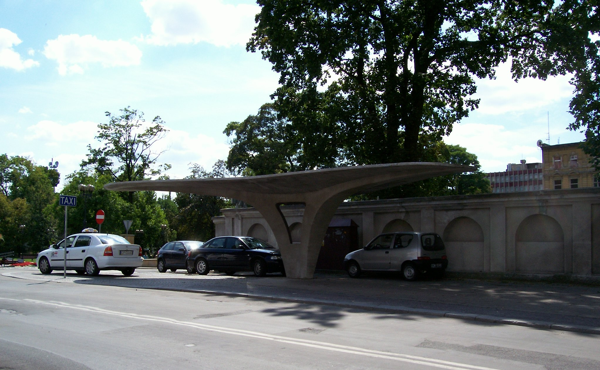 The historical bus stop at Freedom Square in Opole, Poland.